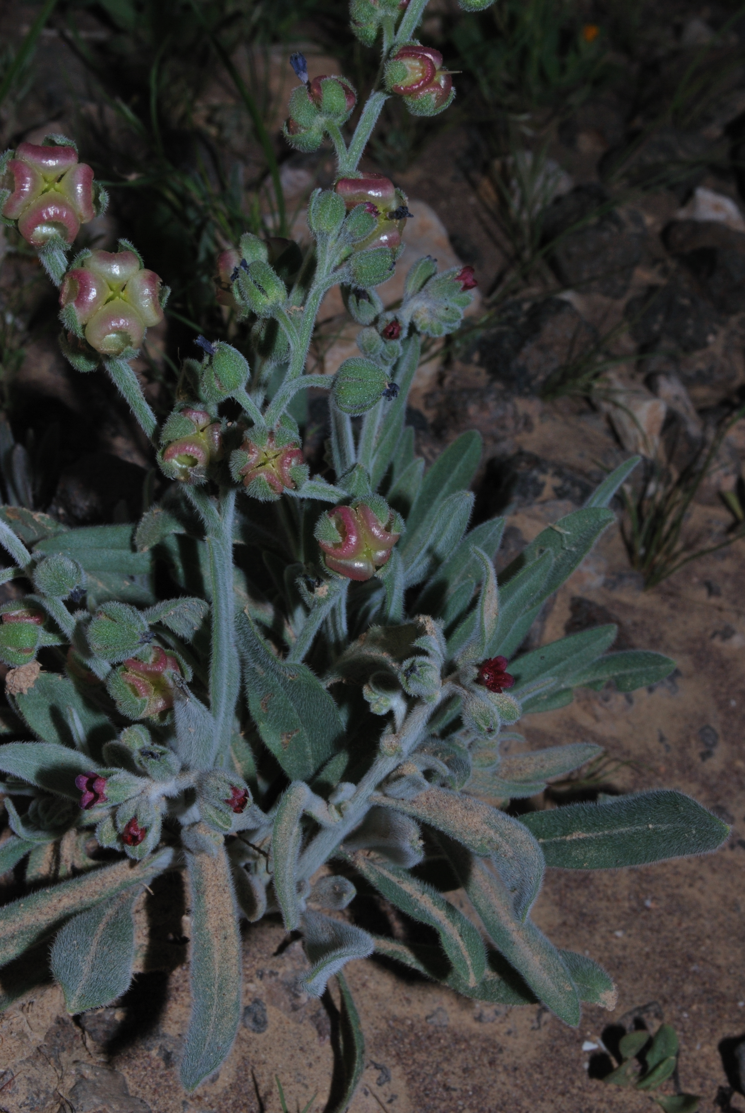 Paracaryum rugulosum Boiss., Makhtesh Ramon, Negev, Israel, February 23, 2010.